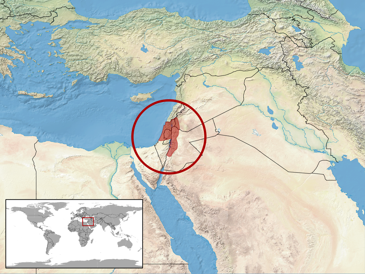 geographic distribution of Ophiomorus latastii